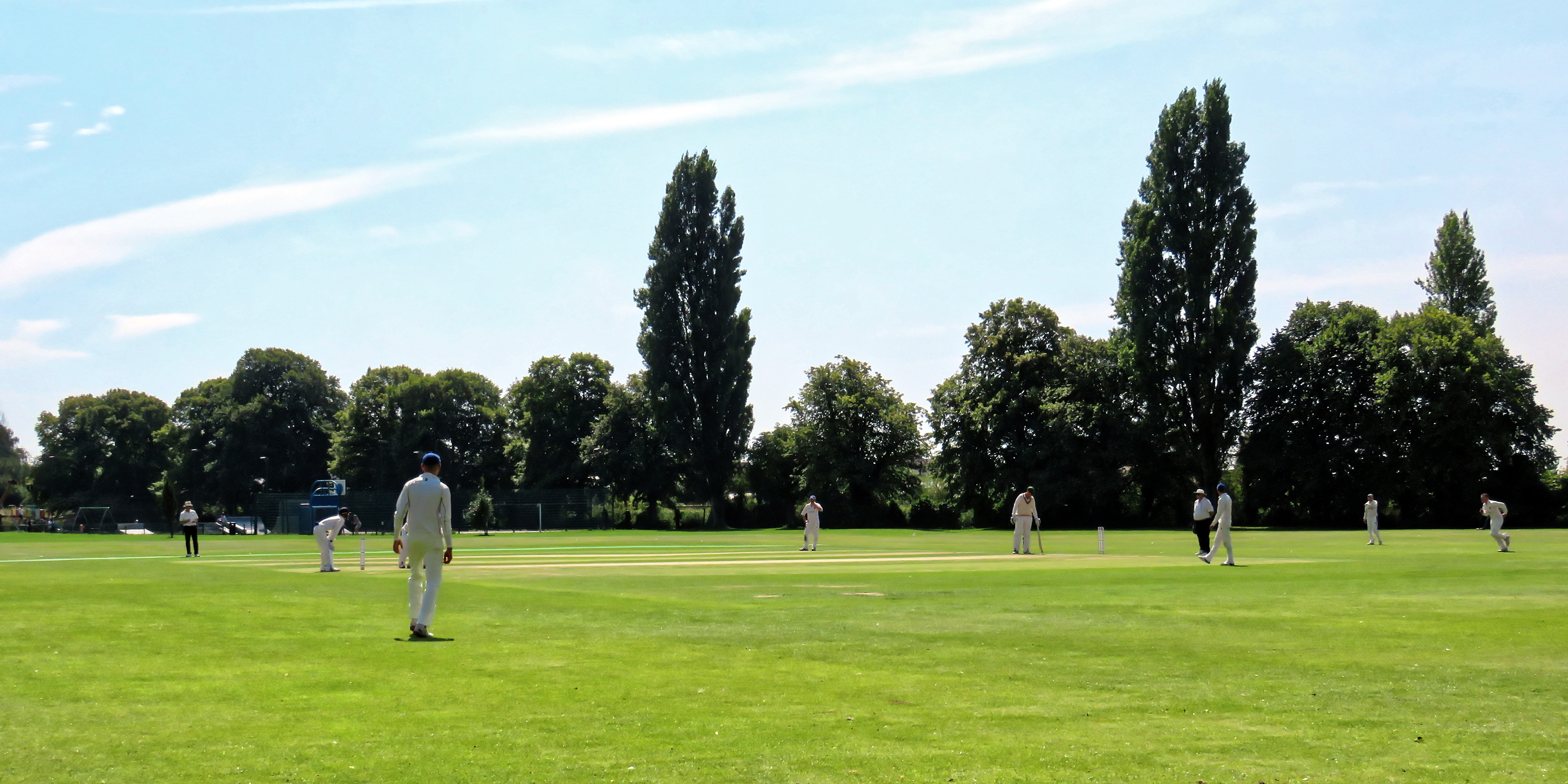 A public midweek friendly cricket match between Sandwich Town CC (of the Kent Cricket League) and MCC Friendly XI (batting) at Sandwich, Kent, England.Camera: Canon PowerShot SX60 HSSoftware: File lens-corrected, optimized, perhaps cropped, with DxO OpticsPro 11 Elite, and likely further optimized with Adobe Photoshop CS2.